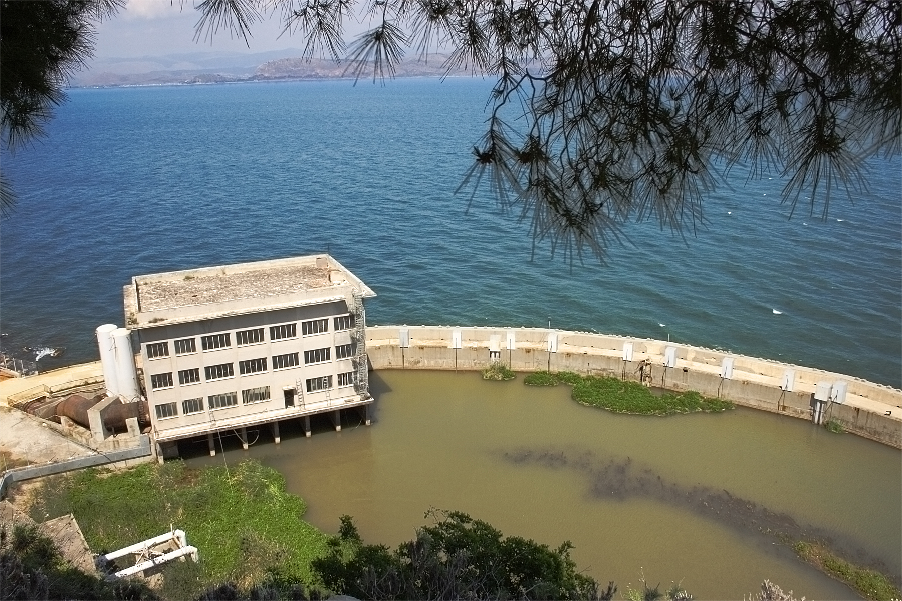 Big submarine karst spring next to Kiveri, Argolic Gulf. The precipitation water comes from the karstified limestone mountains of the Northeastern Peloponnese. Gated weirs keep the fresh water table higher to prevent saline sea water from mixing with the fresh water. The water is good for irrigation as it contains only 0.3 to 2.5 gr/l Chloride.